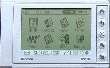 Photo of the Xircom/Intel Rex-6000 PDA, by (and with permission of) Dana White, organizer of the Rex-6000 community